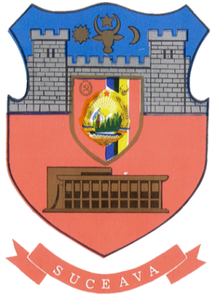 Communist coat of arms of Suceava municipality, Suceava County, Socialist Republic of Romania.